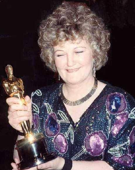 Oscar winner Brenda Fricker at the 62nd Annual Academy Awards (cropped and retouched).